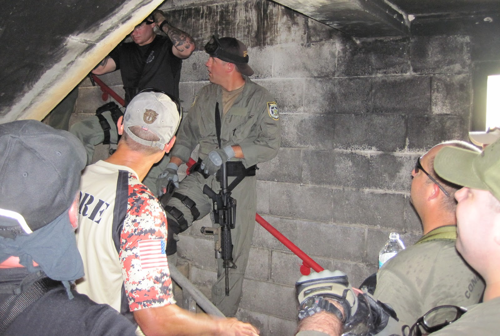 Florida Guard Counter Drug Training SWAT